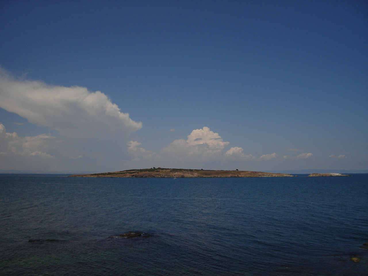 Island Sveti Ivan (Saint John) near Sozopol, Bulgaria, the Black sea